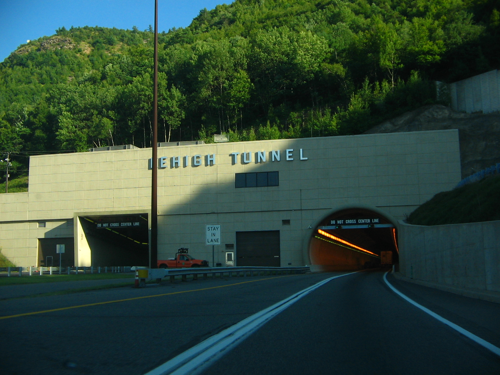 Lehigh Tunnel along I-476